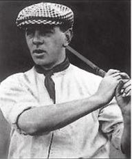 Circa 1905 photograph (unknown photographer) of Scottish golfing great Willie Anderson.